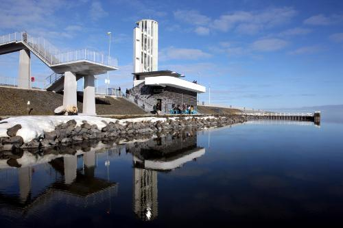 Netherlands North Sea Protection Works